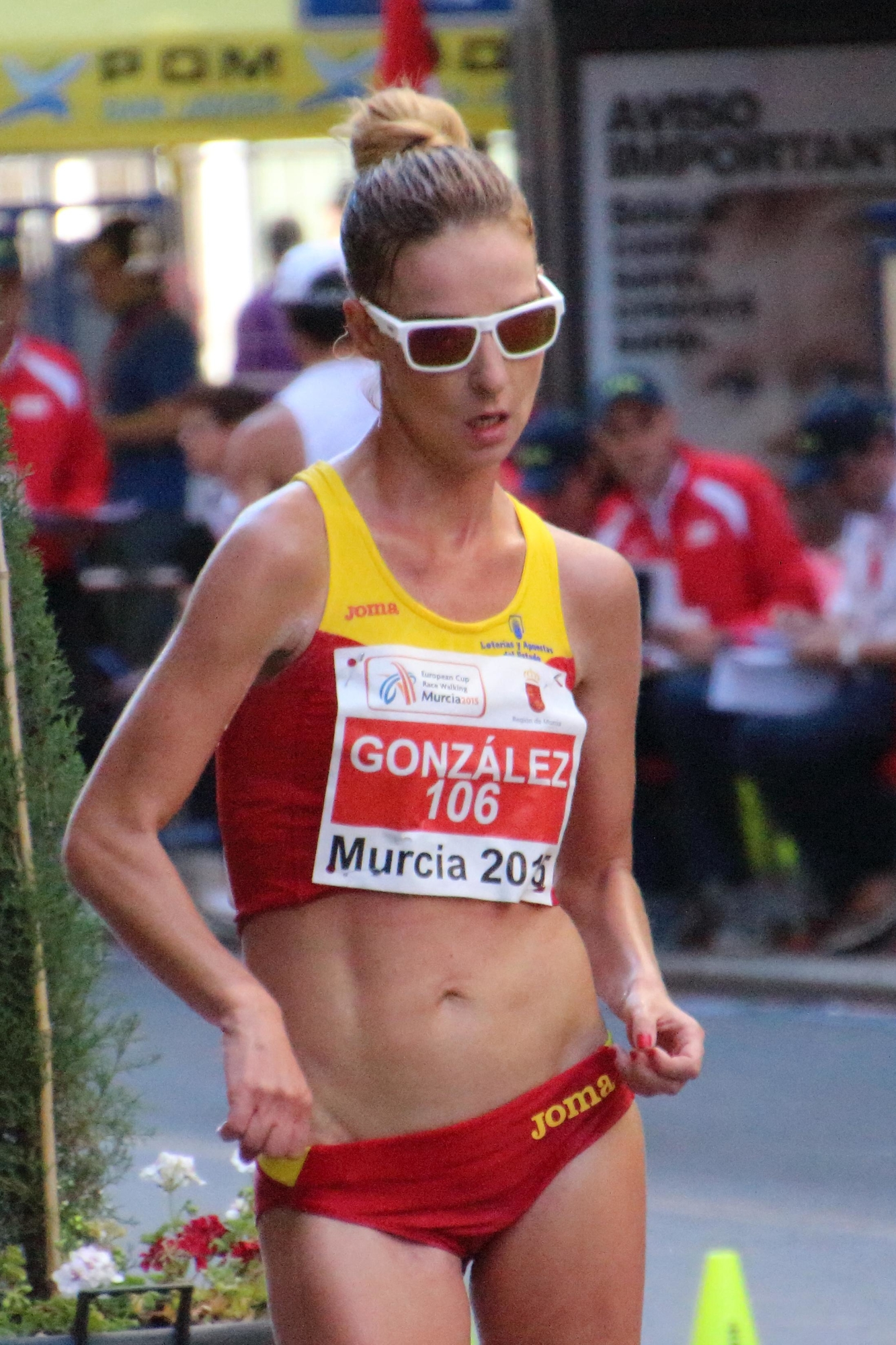 Raquel Gonzalez, spanish race walker, in the European Cup Race Walking 2015 (Murcia, Spain).